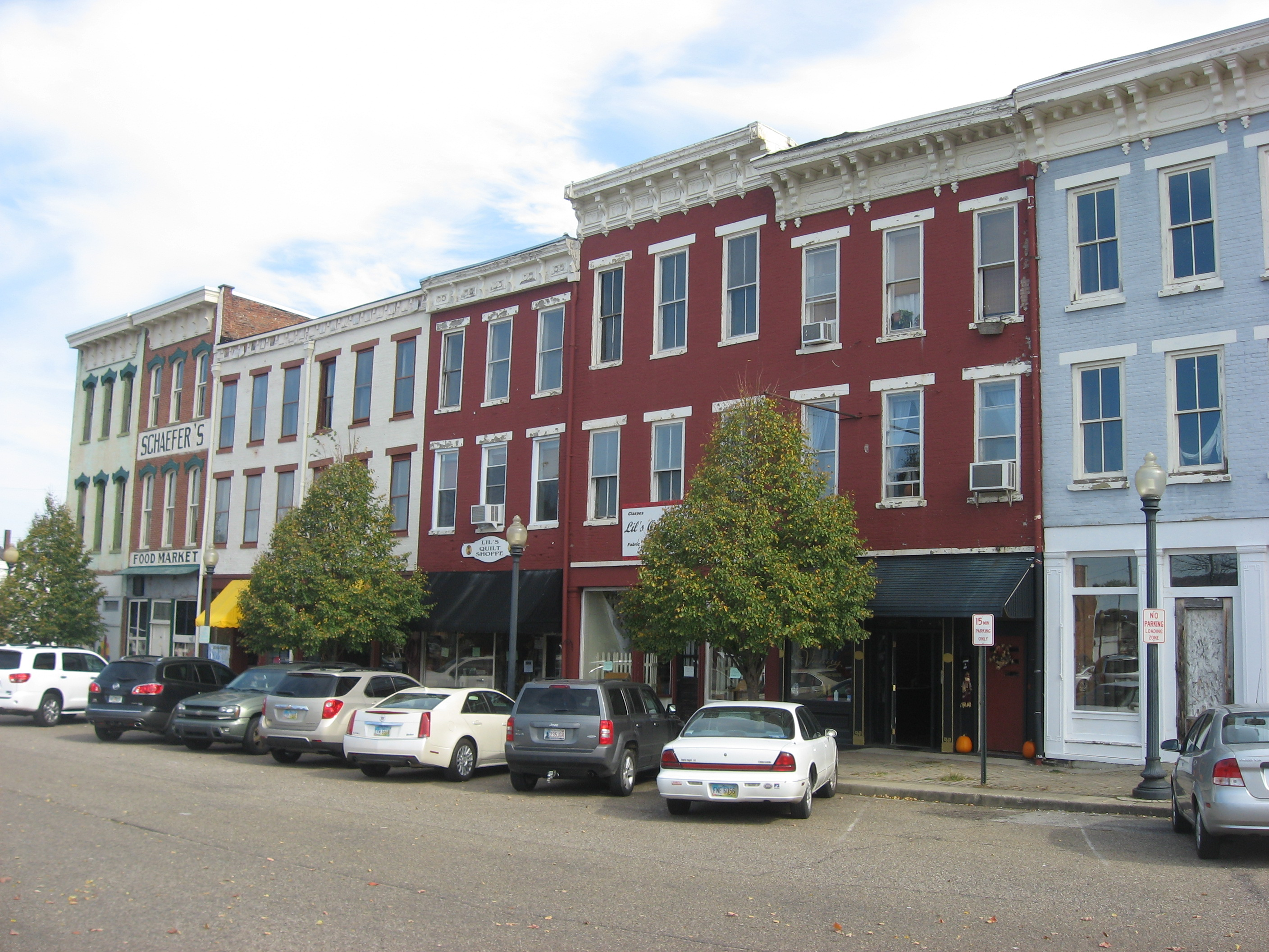 Buildings on the eastern side of Market Street between Second and Third Streets in Portsmouth, Ohio, United States. This block is part of the Boneyfiddle Commercial District, a historic district that is listed on the National Register of Historic Places.